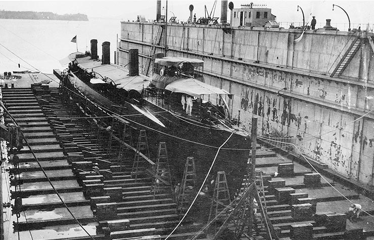 USS Chauncey (Destroyer # 3) In the "Dewey" floating drydock, Olongapo Naval Station, Philippine Islands, circa 1910. Donation of Mr. F.M. Deats, 1963. U.S. Naval Historical Center Photograph.